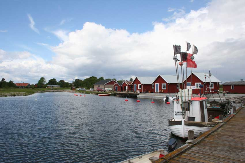 Harbour on Öland, Sweden